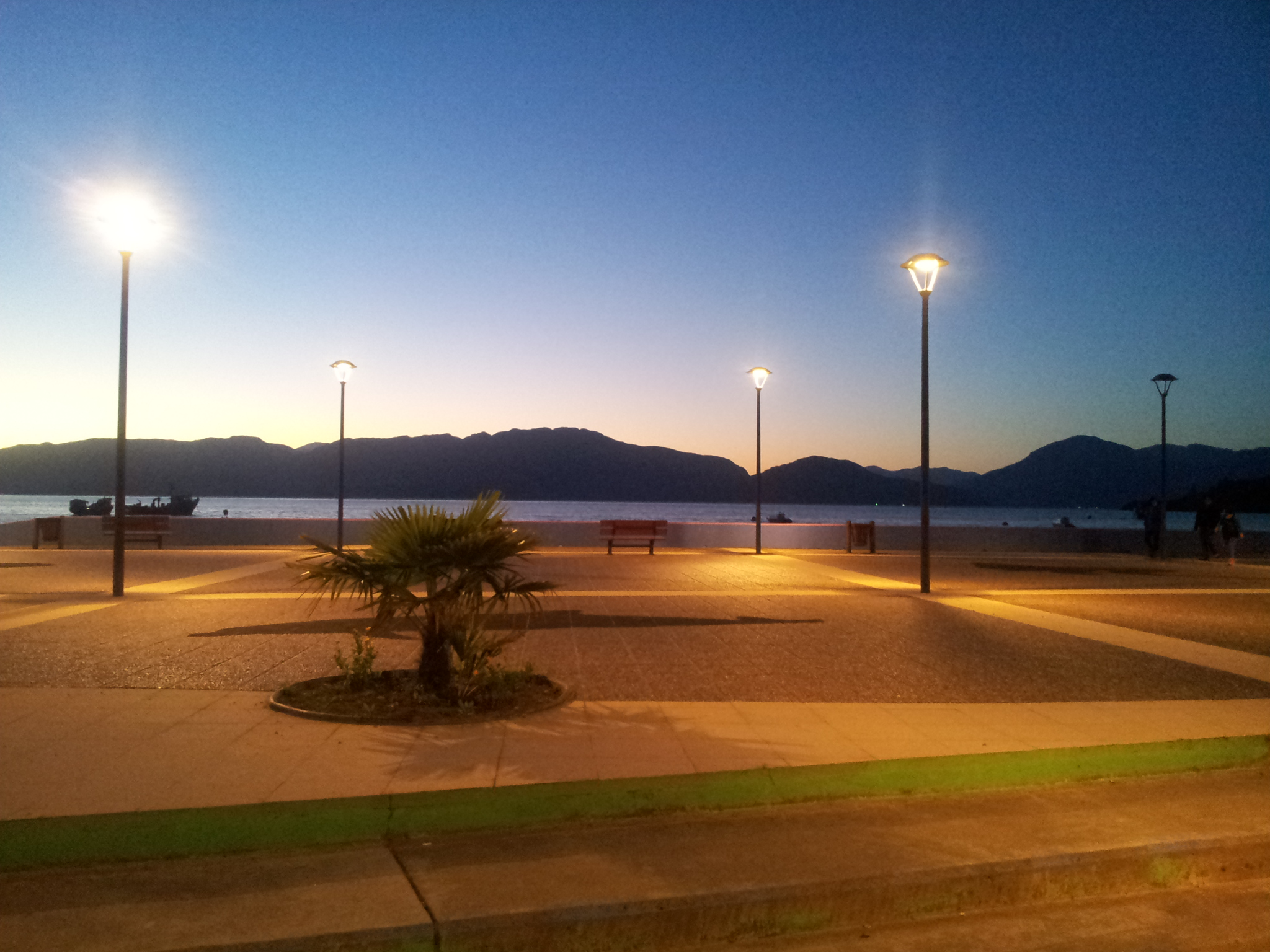 Atardecer en la Costanera de Puerto Cisne